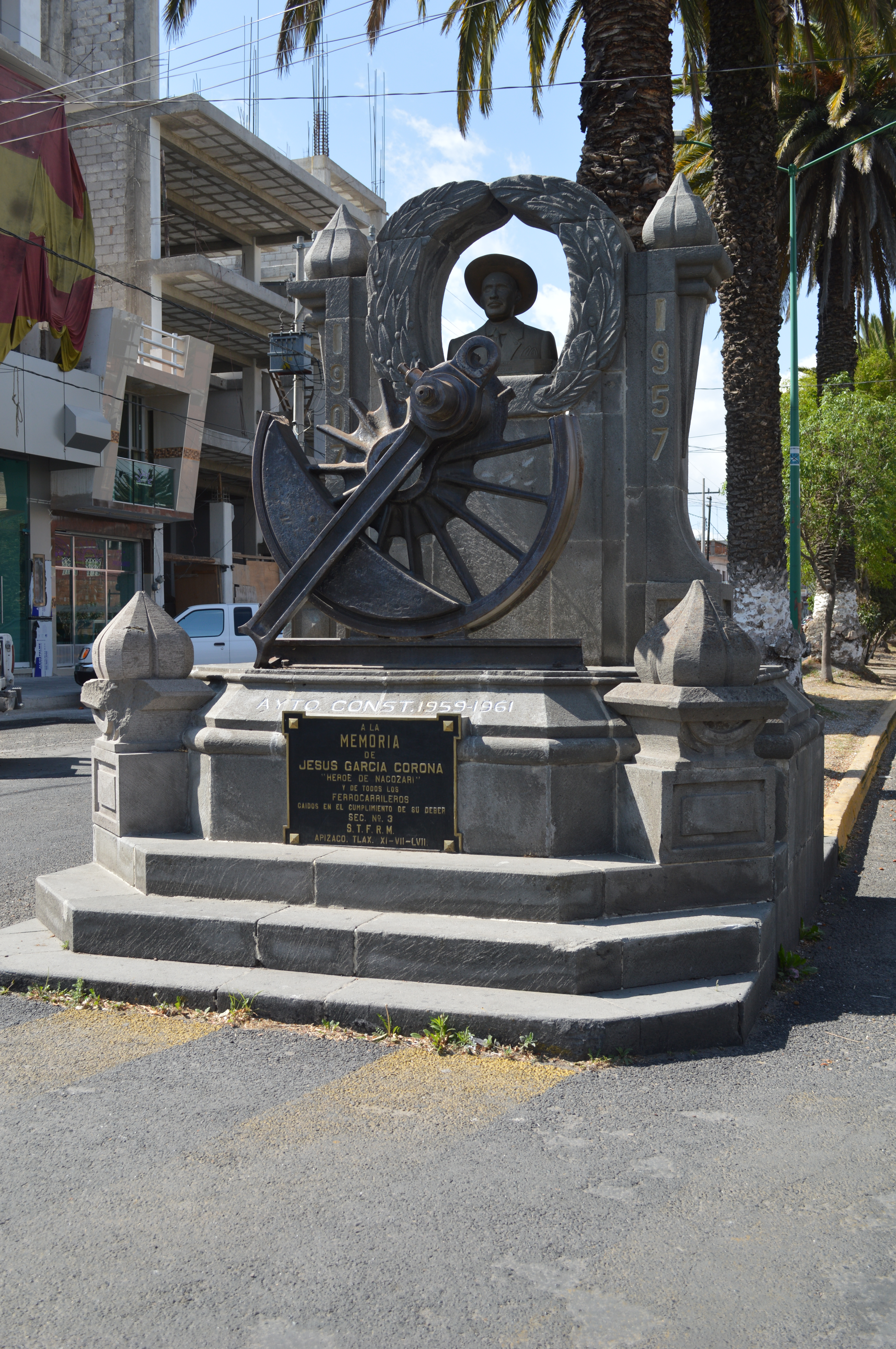 Monument to railroader Jesus Garcia Corona in front of the former railroad station in Apizaco, Tlaxcala, Mexico